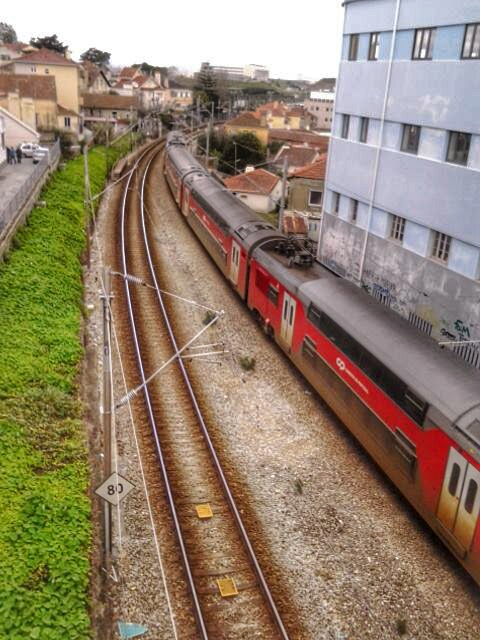 Train of type 3500 at Sintra railway line, Portugal